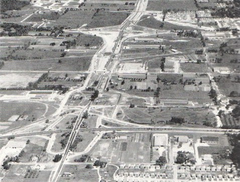 A photograph looking north along Highway 27 in 1954. The Queen Elizabeth Way crosses the photo horizontally near the bottom. In the distance, initial construction on the widening of the two lane Highway 27 into a freeway can be seen.